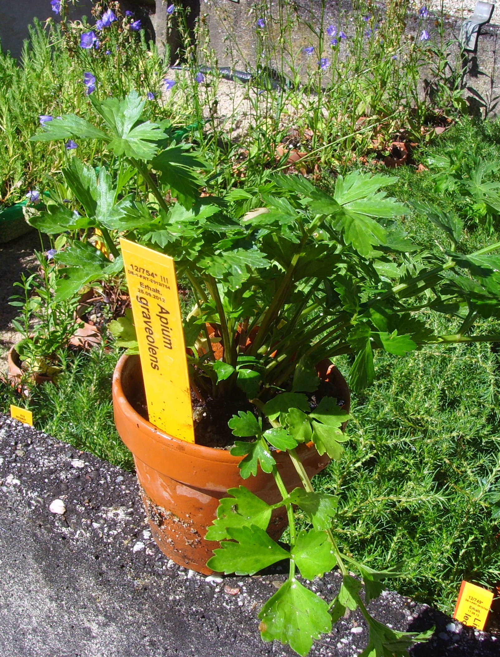 wild type of Apium graveolens. In the background: Campanula baumgartenii